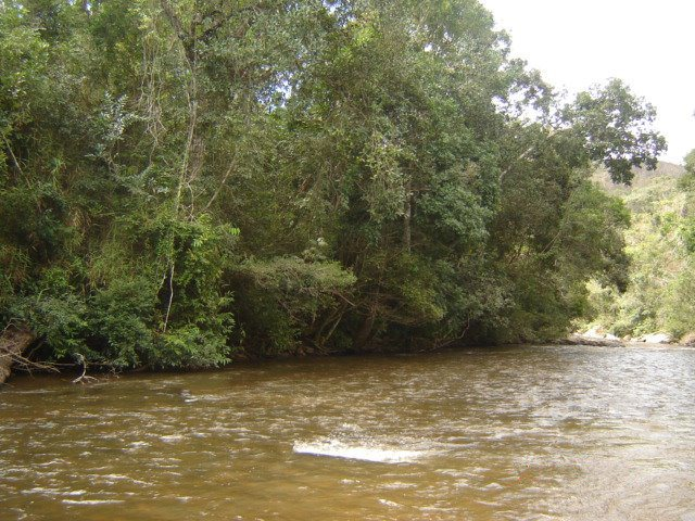 Water in Itamarandiba-Brasil